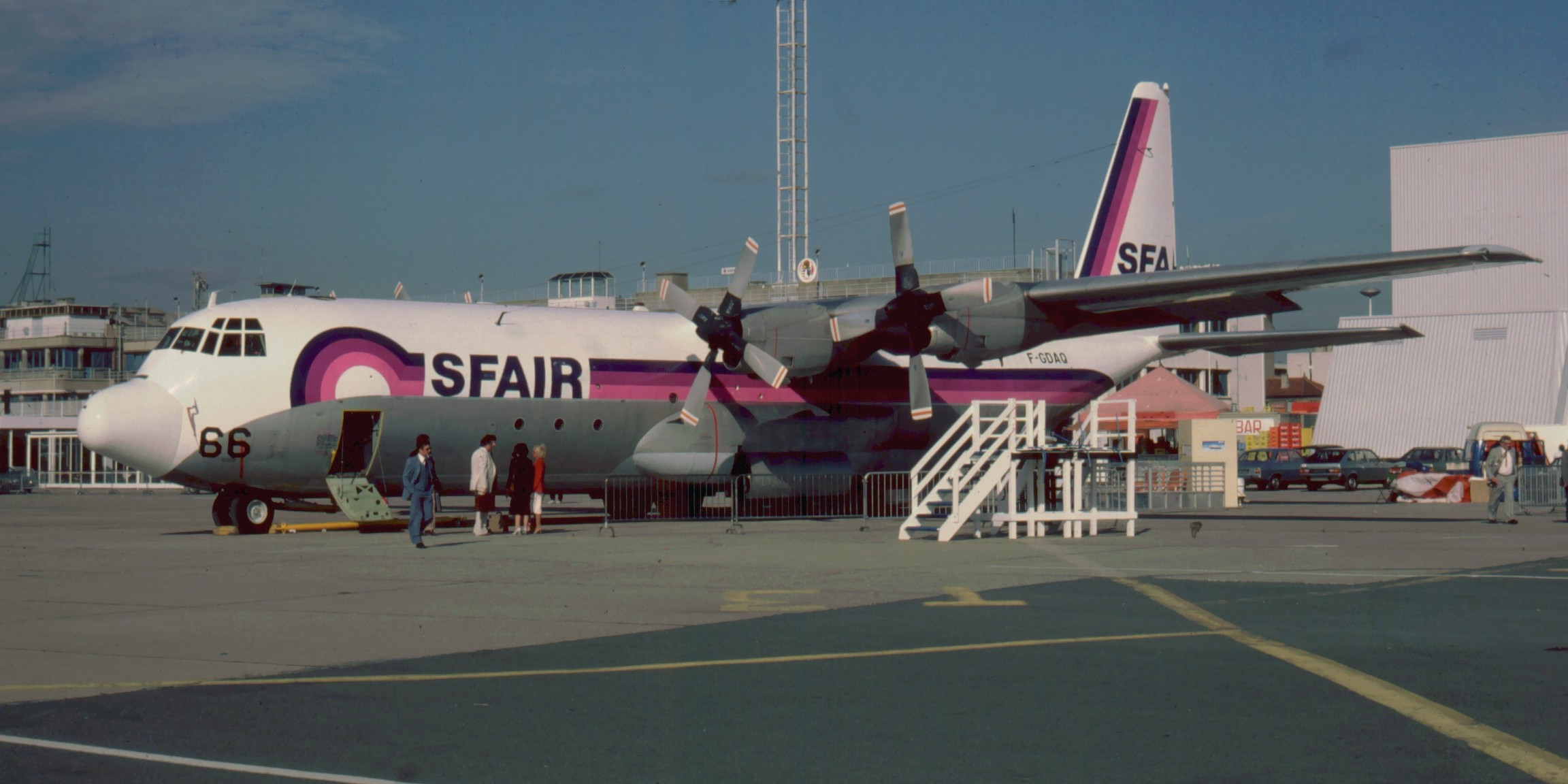 Lockheed L-100 at the Paris Air Show 1981